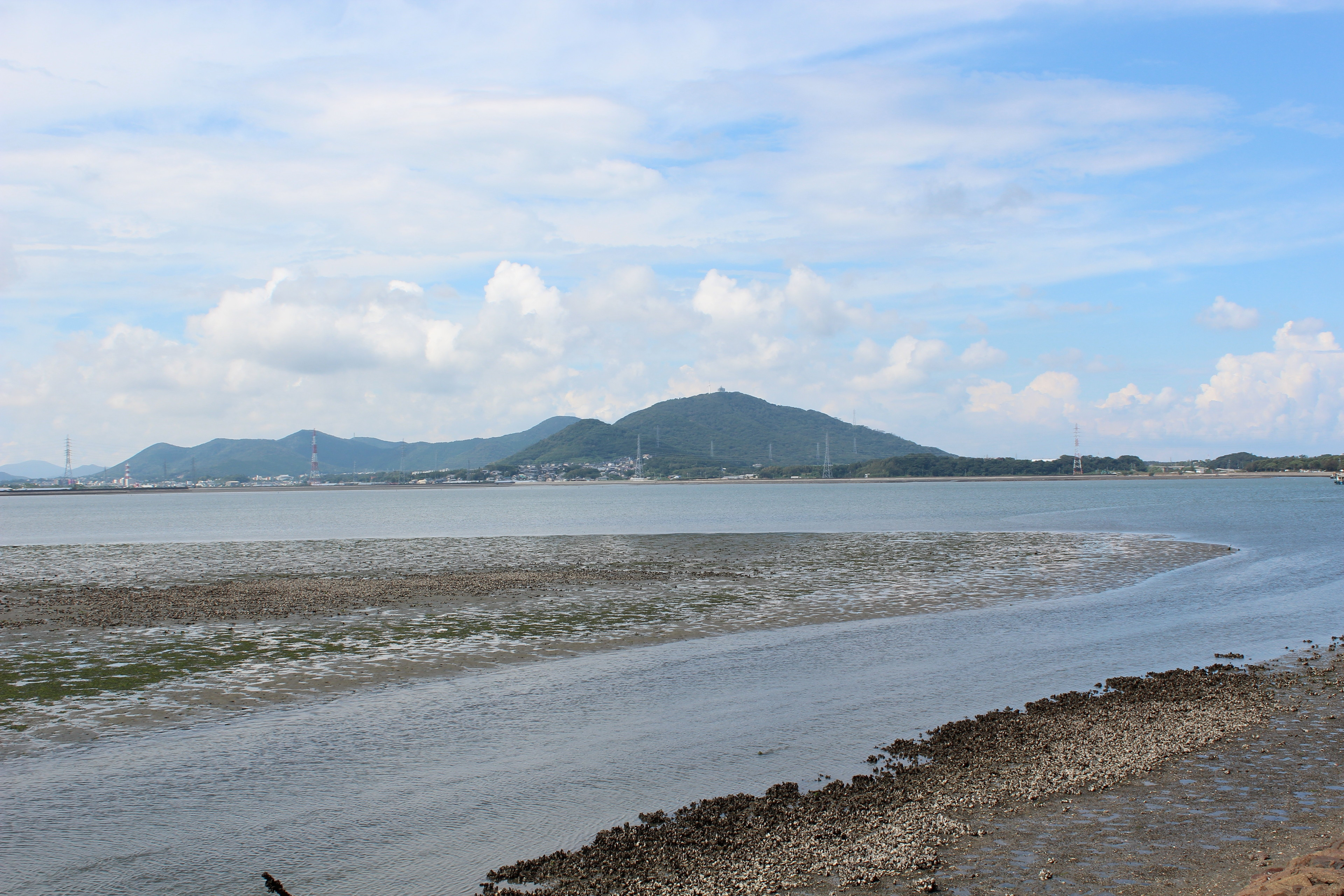 Mount Zao from Shiokawa Higata